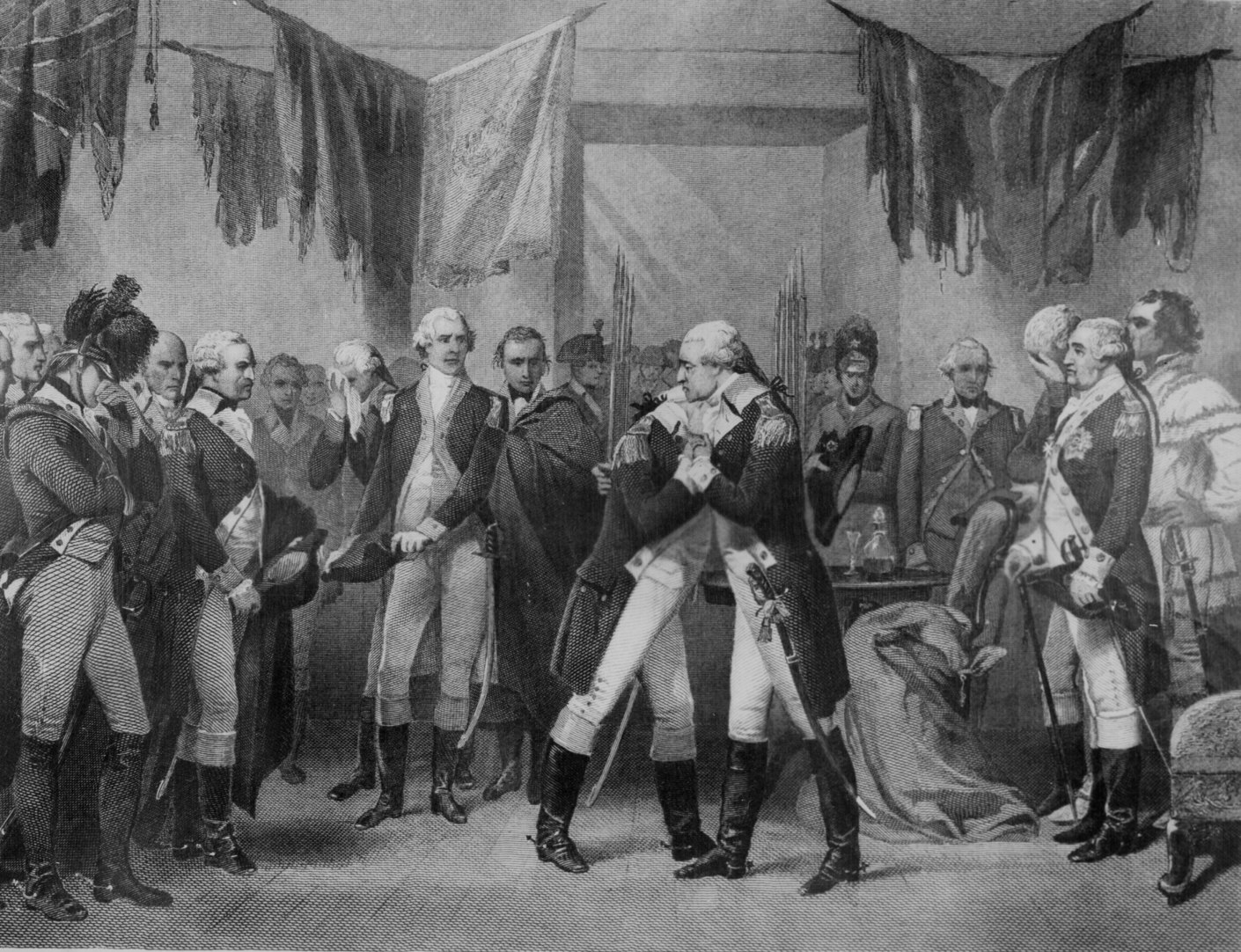 "Washington's Farewell to His Officers." Engraving by Phillibrown, from a painting by Alonzo Chappel.